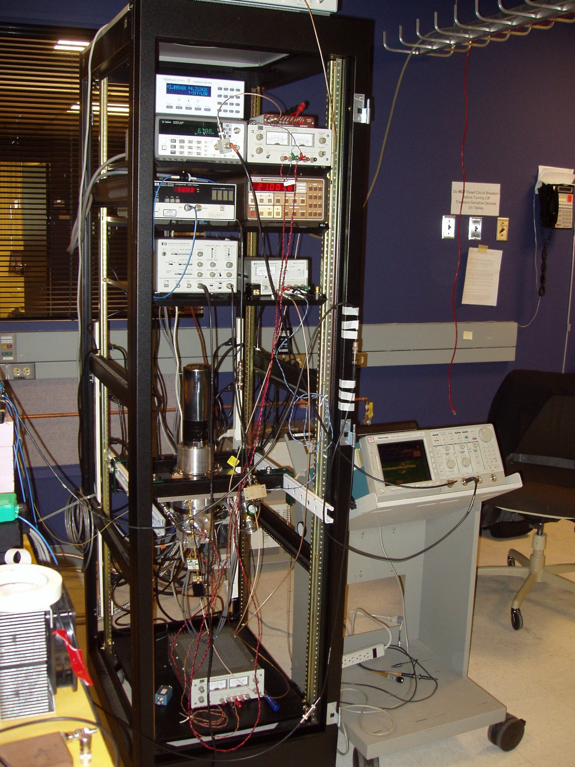 Superconducting nanowire single-photon detector in the DARPA Quantum Network (BBN) - June 2005. The result of collaboration between NIST Boulder, University of Rochester, and BBN Technologies. I took this photo.